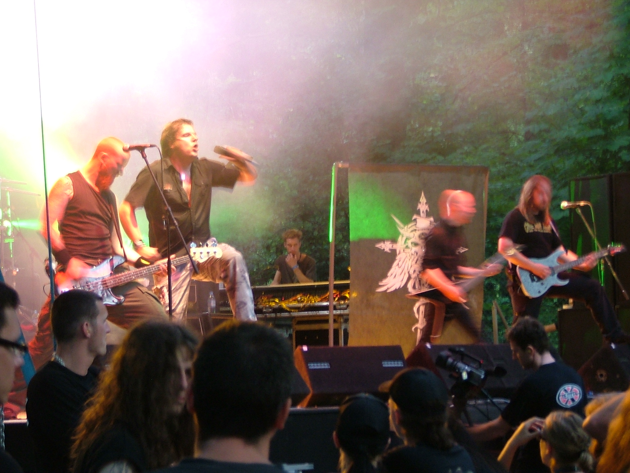 Swedish death metal band One Man Army and the Undead Quartet at the Metalcamp in Tolmin